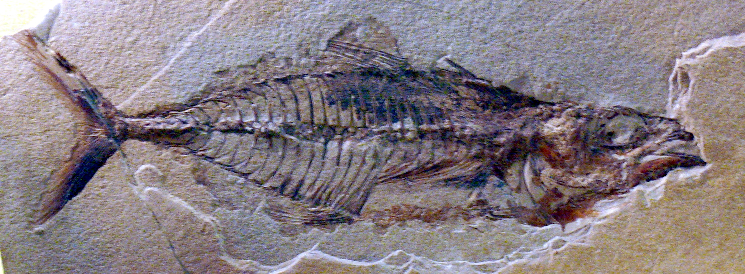 Godsilia lanceolata (Agassiz) Monsch 2006 (jr synonym = Thynnus latior (Agassiz) Eastman 1911 from the Eocene, Monte Bolca, Italy